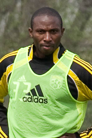 I shot this photo during training on 4/15/2011 at Columbus Crew Training Center in Obetz, Ohio.